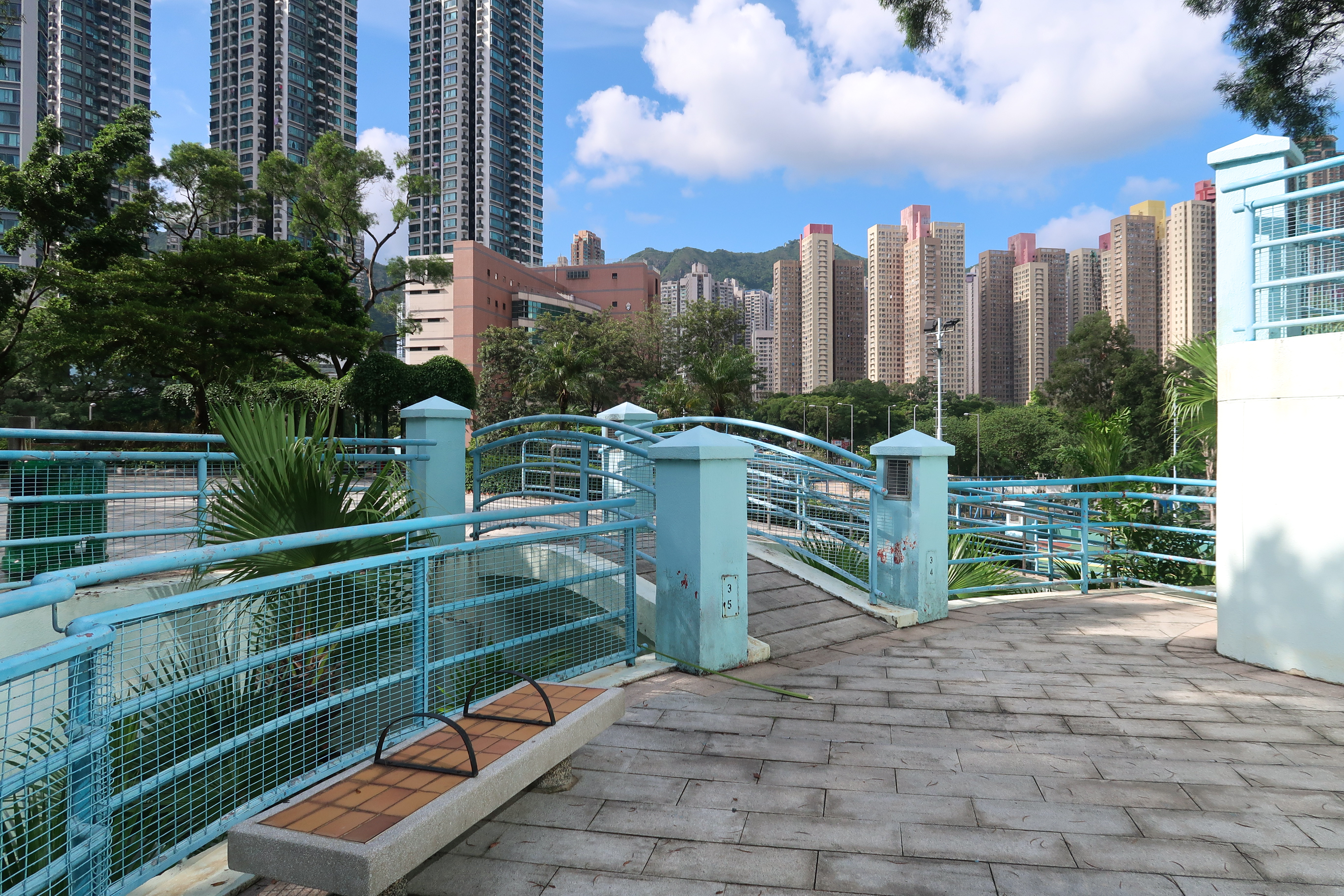 Choi Hung Road Playground Kai Tak Playground structure